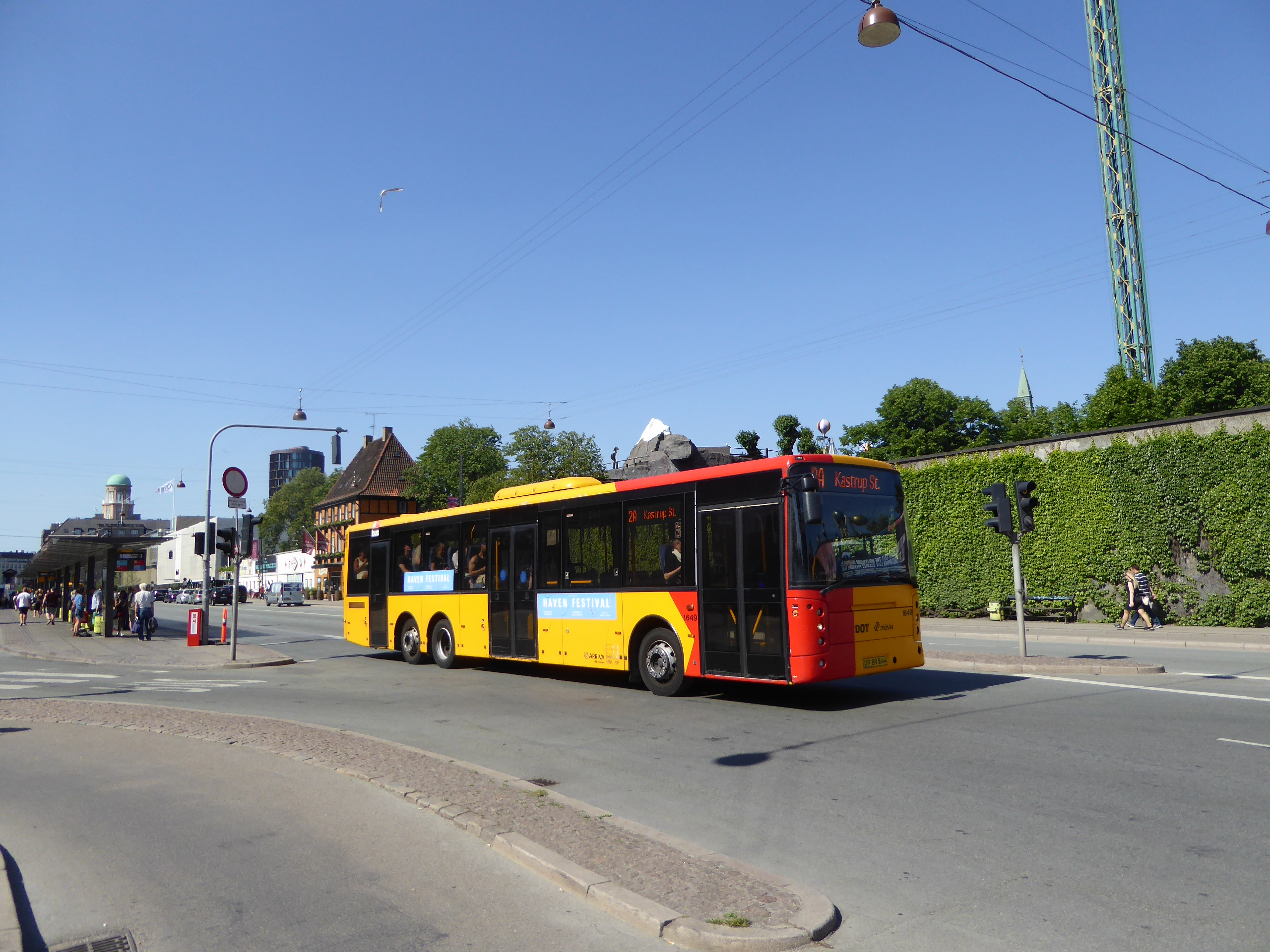 Movia bus line 2A on Bernstorffsgade at Københavns Hovedbanegård (Copenhagen Central Station).